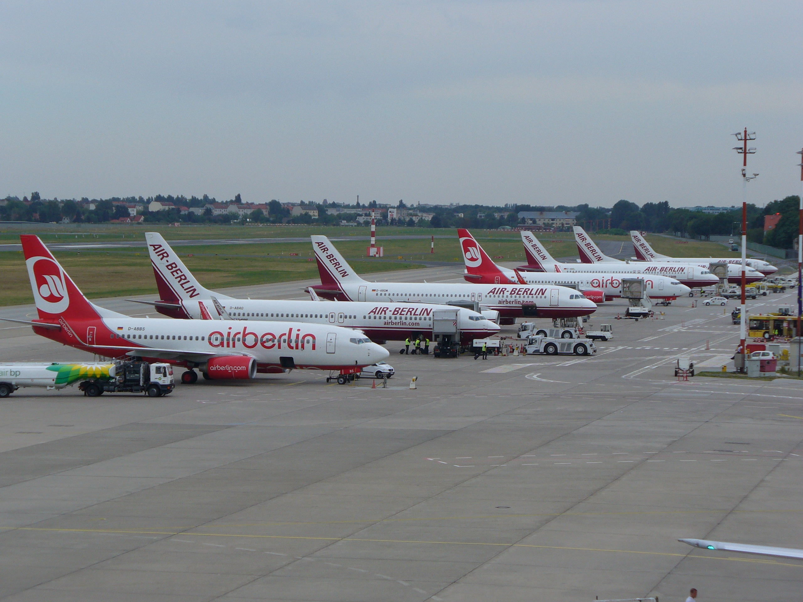 Air Berlin Boeing 737 and Airbus A320 series aircraft at Berlin Tegel Airport in front of Terminal C